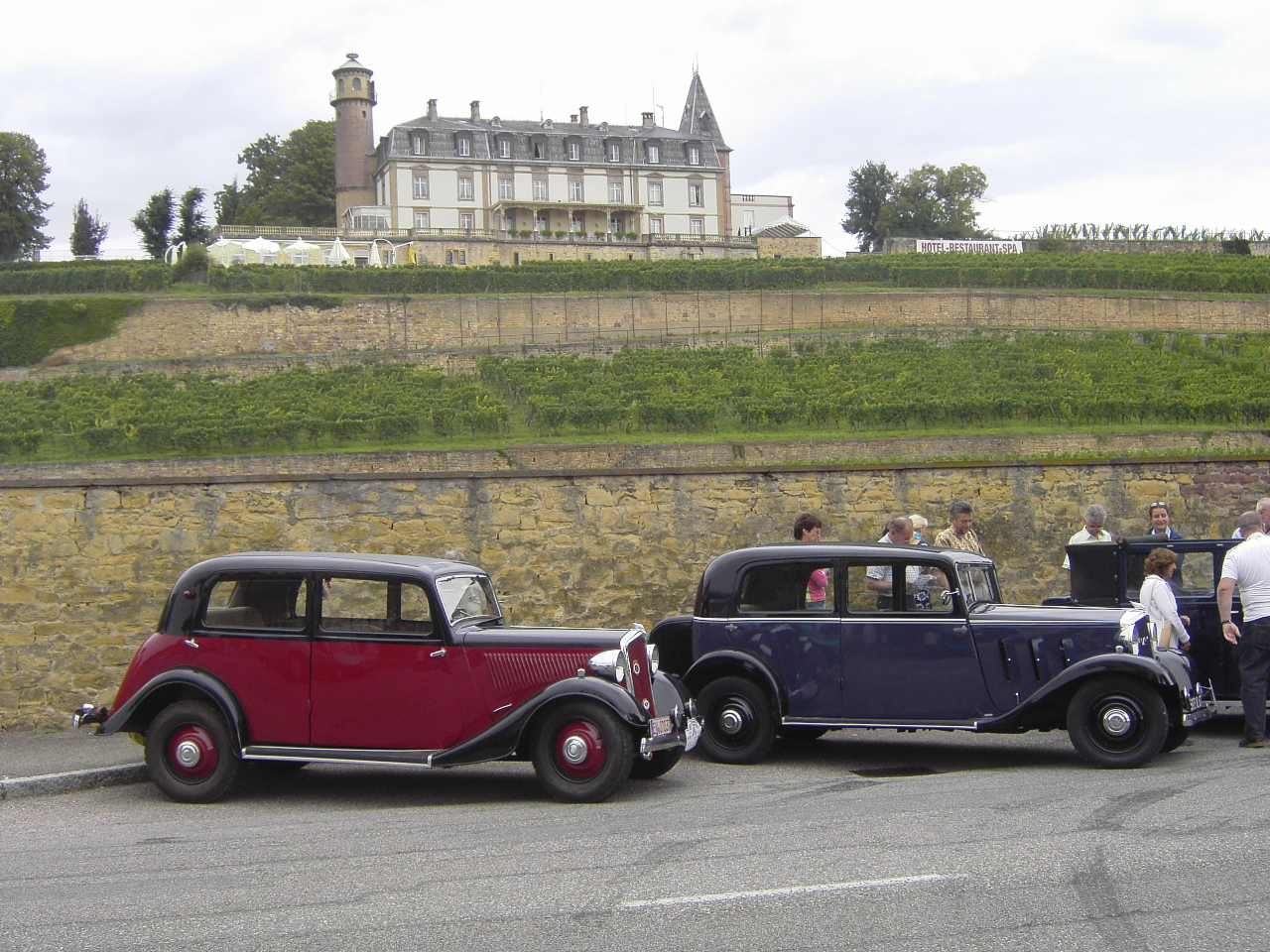 Matford M4S-Commerciale 1934 (left) and Mathis EMY4-S M4S (right) at Rouffach, Alsace, France